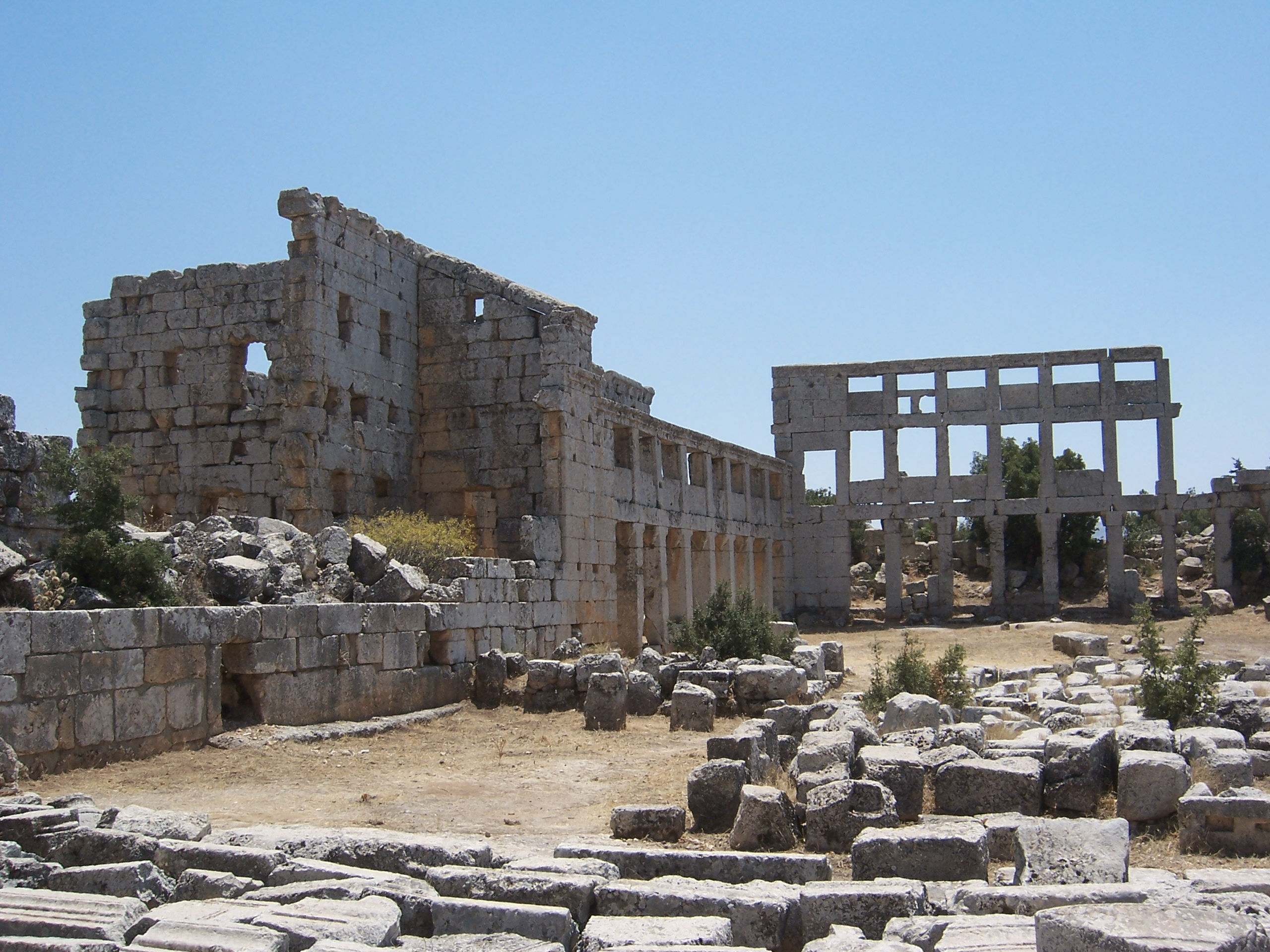 AWIB-ISAW: The Church of St. Simeon Stylites (XXIII) The interior of the monastic complex at the Church of St. Simeon Stylites. by Erik Hermans (2008) copyright: 2008 Erik Hermans (used with permission) photographed place: Telanissos Published by the Institute for the Study of the Ancient World as part of the Ancient World Image Bank (AWIB). Further information